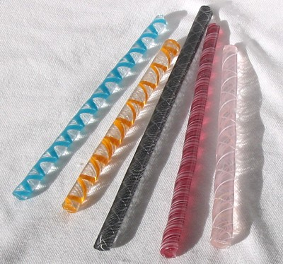 Examples of canes (zanfirico) used for special glassblowing techniques.